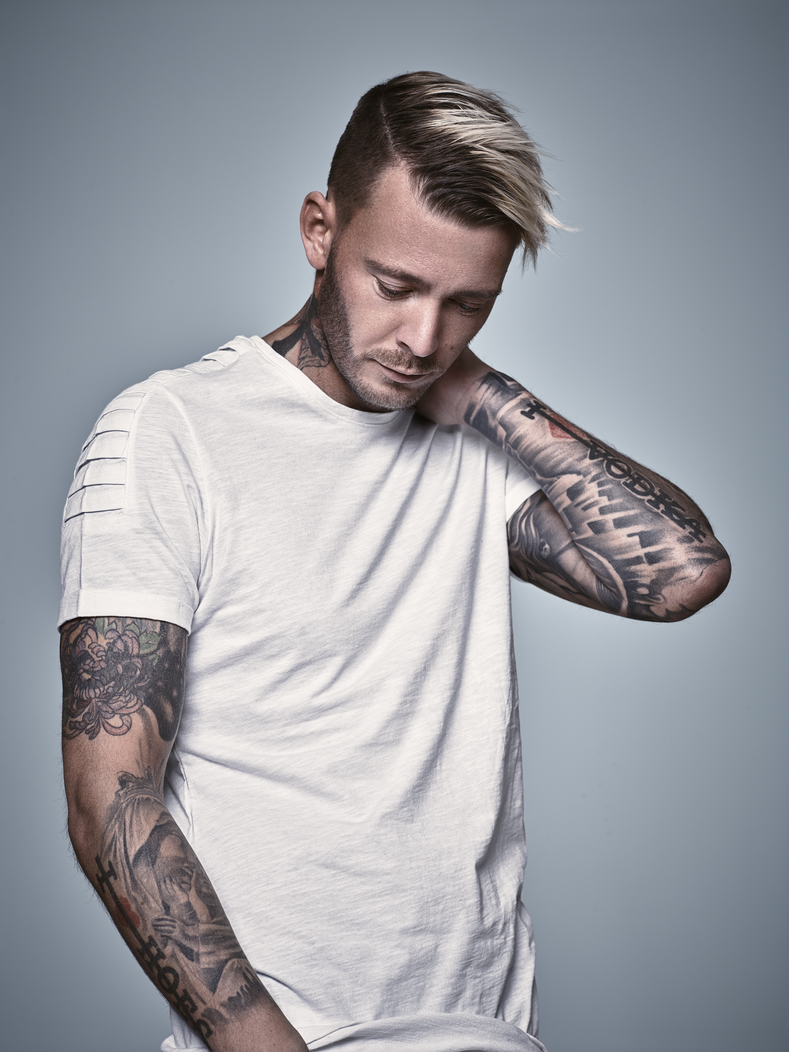 Photo of Swedish musician Joakim Lundell in 2017.